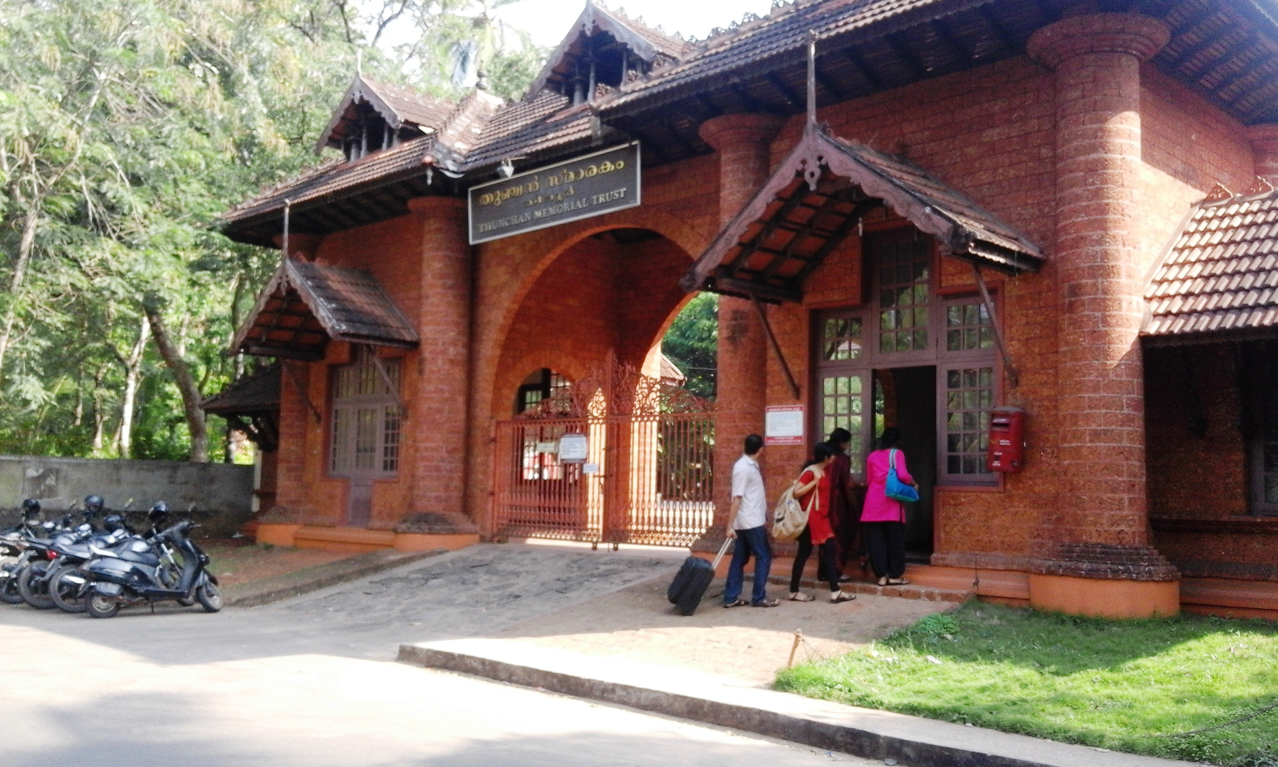 Thunchath Smarakam, Tirur, India.